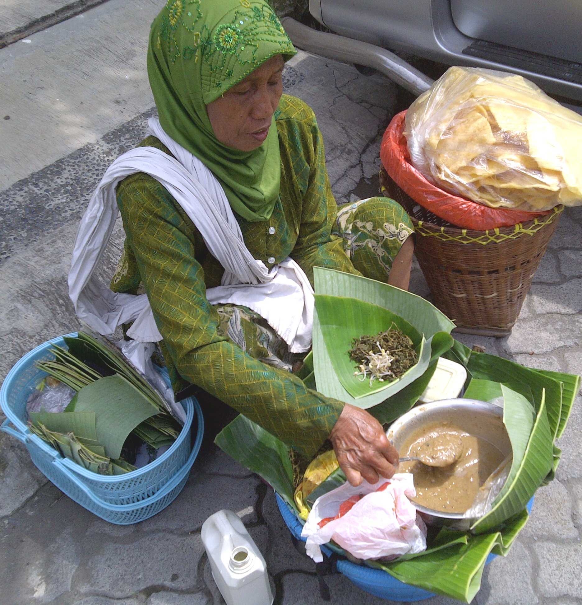 The seller of semanggi, food from Surabaya, Indonesia